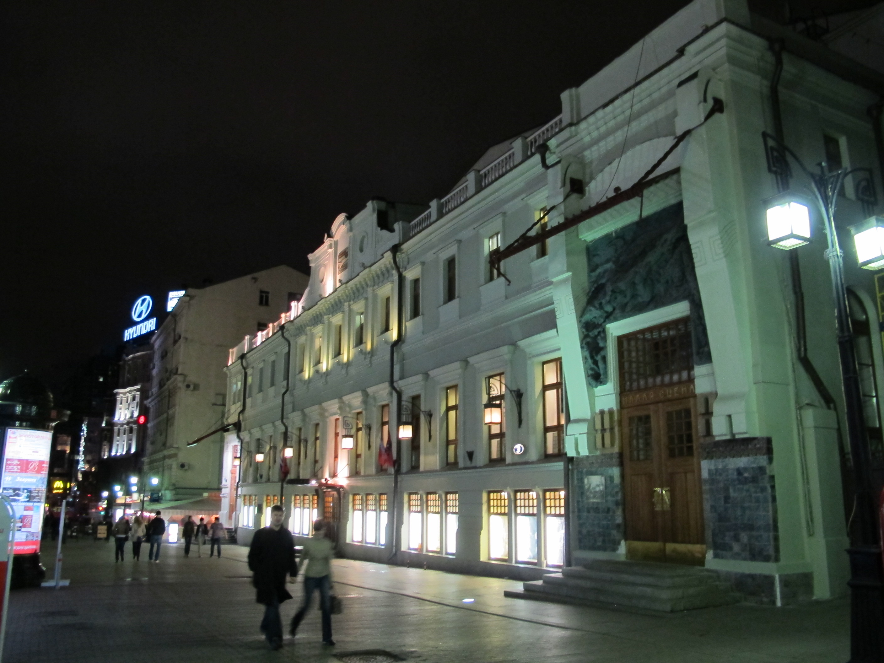 Moscow Art Theatre di notte